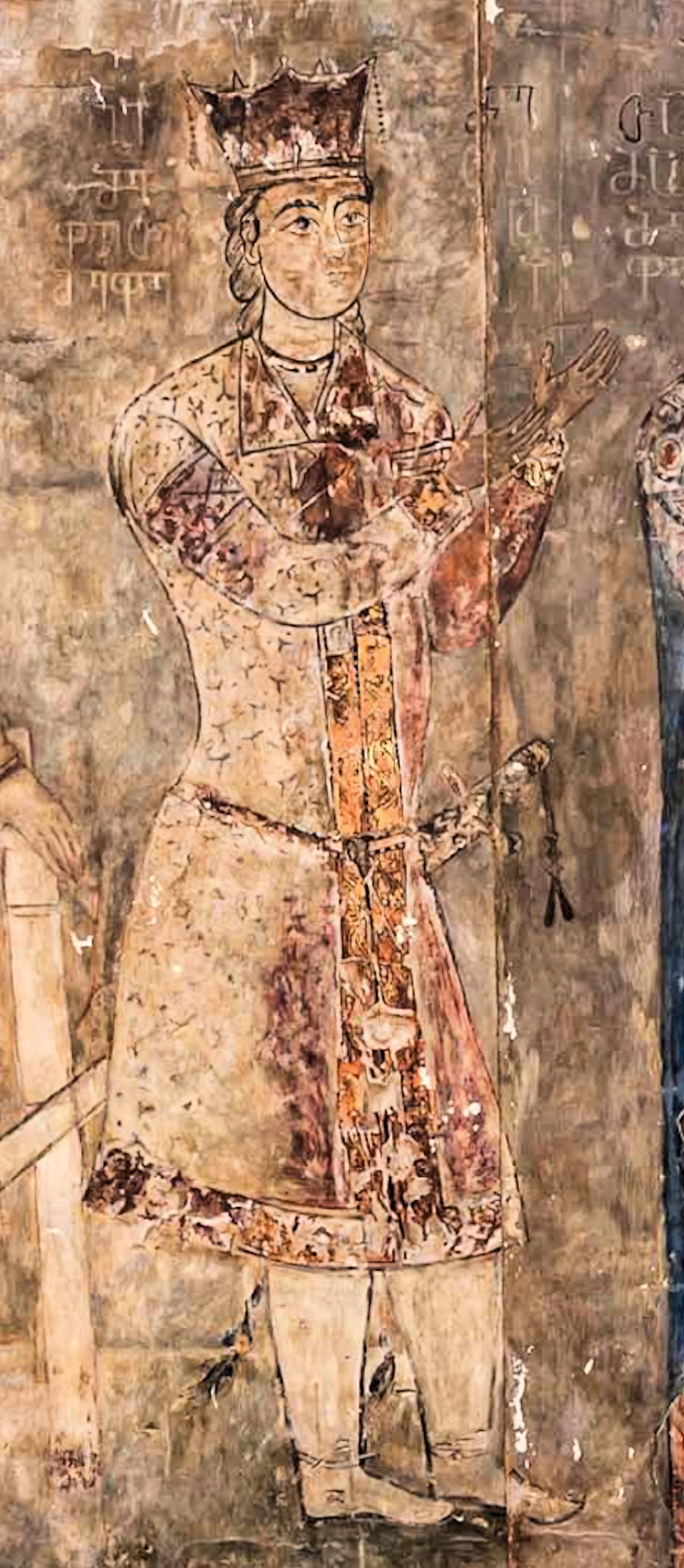 Old fresco of King George IV of Georgia in Betania Monastery